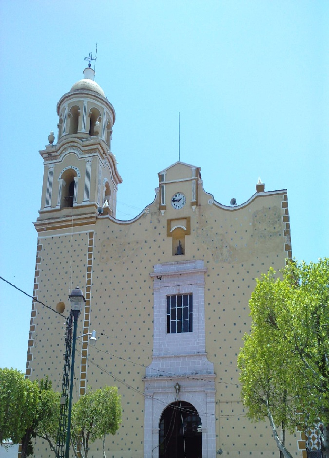 Parroquia de San Agustín, Chiautla de Tapia, Pue.